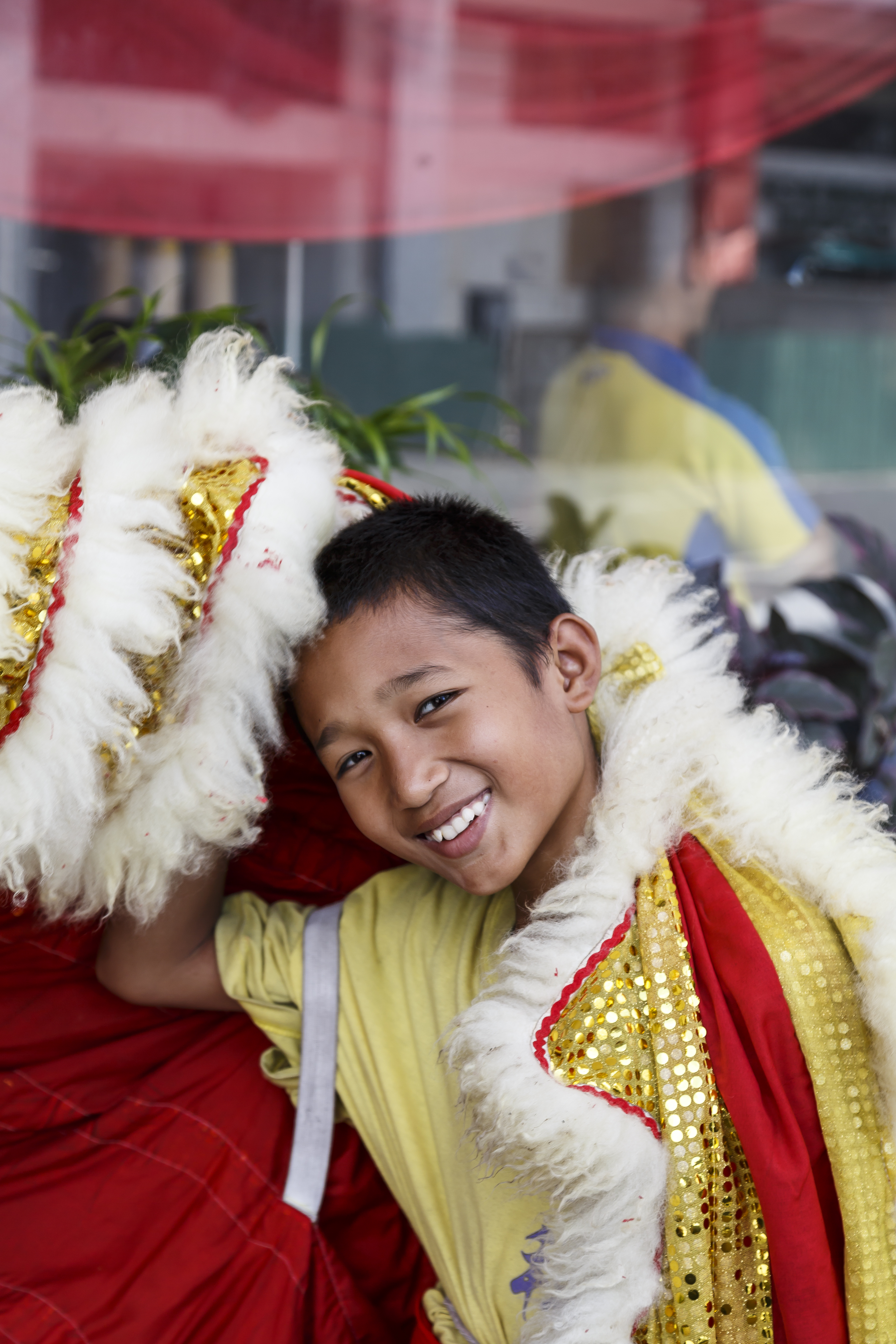 Kota Kinabalu, Sabah: A lion dancer during CNY 2013 Celebration in the seafood restaurant in Wisma Gek Poh